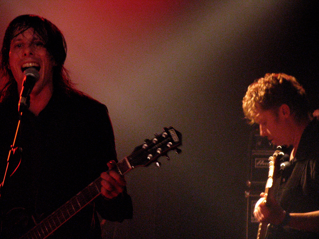 The Posies performing at the Apolo in Barcelona in October 2008, photographed by Quique López.